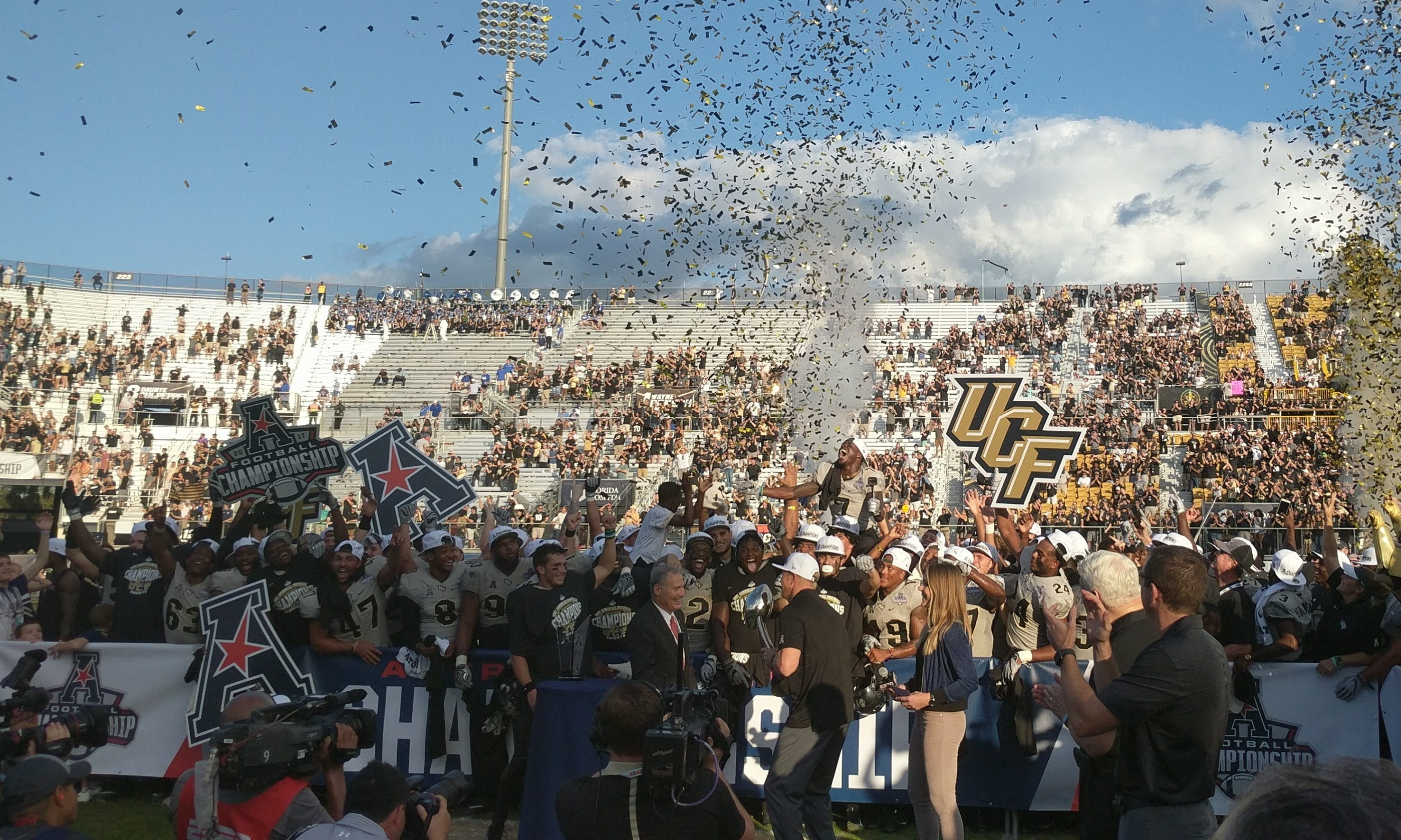 UCF beat Memphis 62-55 in double overtime to claim the American Athletic Conference Championship and a 12-0 record for the season